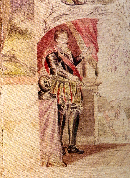 Picture of Herman II. as kept by Croatian museum of history in Zagreb. Author and time unknown, most probably the 18th century.